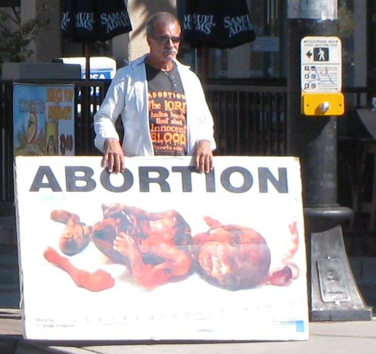 A person demonstrating against abortion